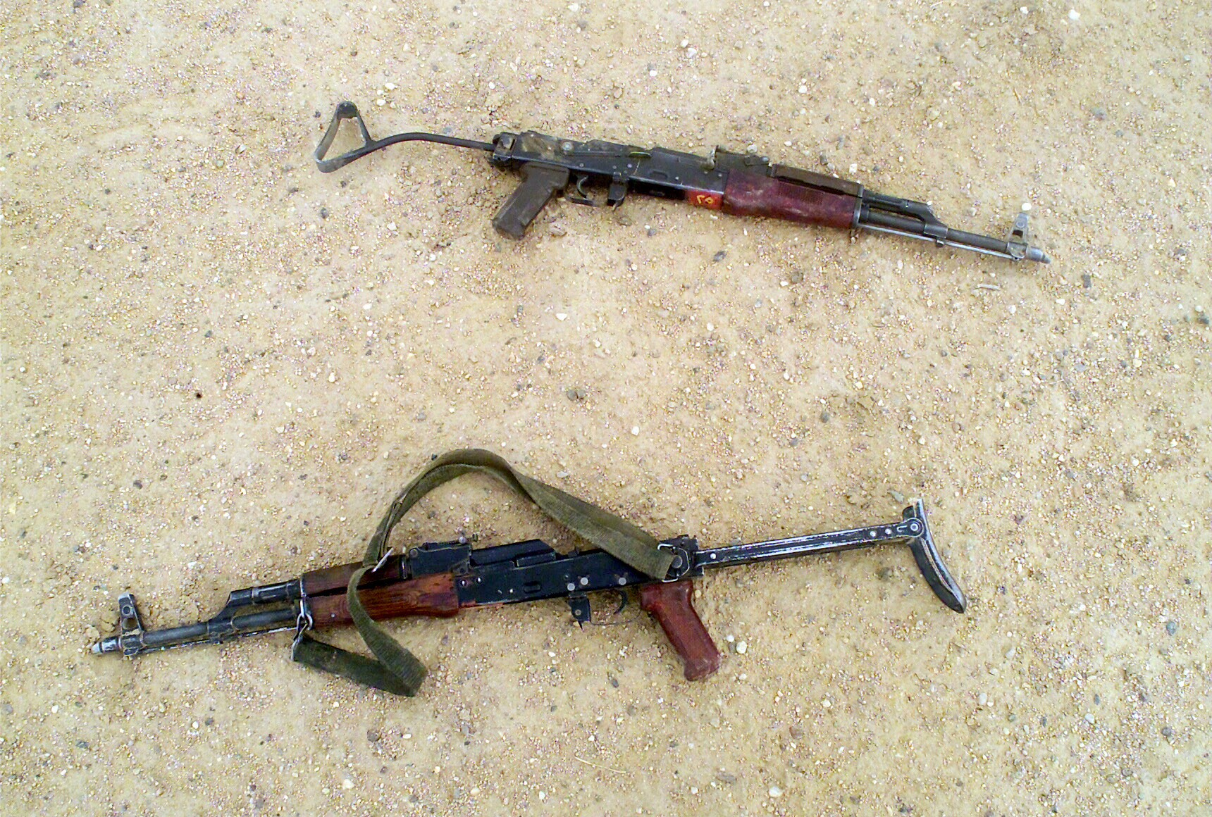 Iraqi weapons, in the top - MPi-KMS-72 (German Democratic Republic), in the bottom - Zastava M80 (Yugoslavia) automatic rifles are secured on patrol by troops from the 7th Marine Regiment Combat Operations Center (COC), in support of Operation ENDURING FREEDOM